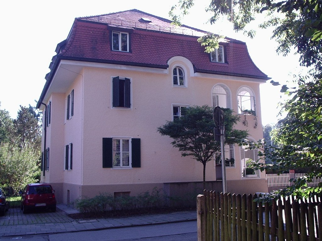 Catholic rectory, Grünbauerstraße 6, Solln, Munich, Germany. Built in 1906 by the architect brothers Franz and Josef Rank. Former house of citizen Joseph Buchauer who donated it to church.